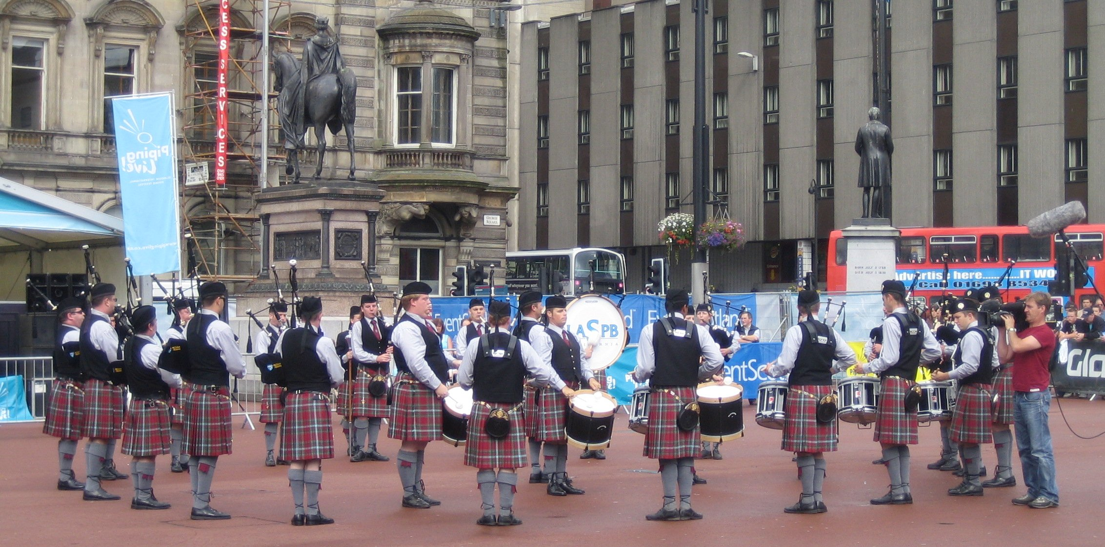 LA Scots Pipe Band performing in George Square, Glasgow in August 2008